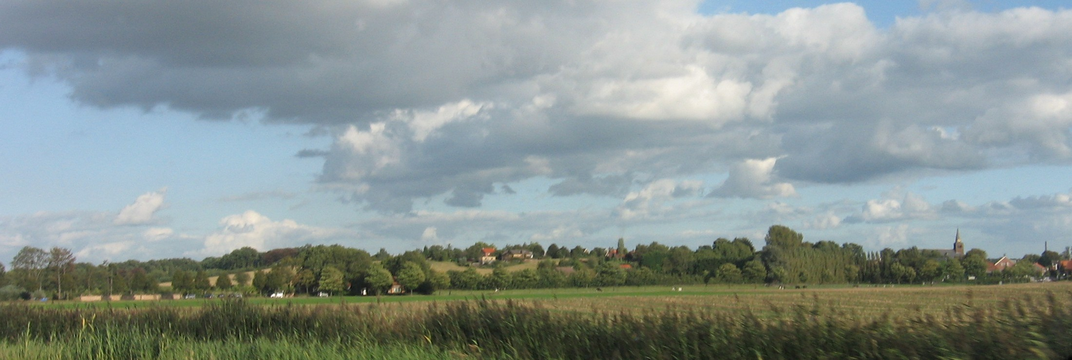 Brabantse Wal, Woensdrecht